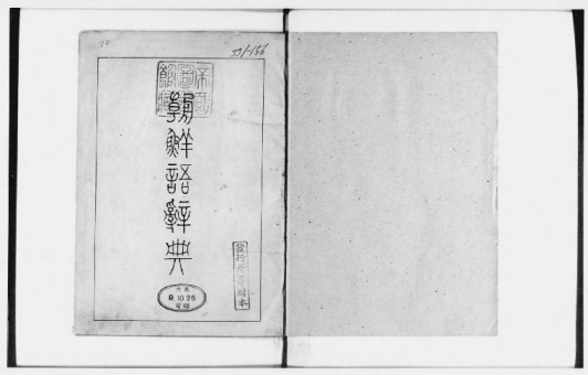 ”Korean dictionary” Governor-General of Korea,1920